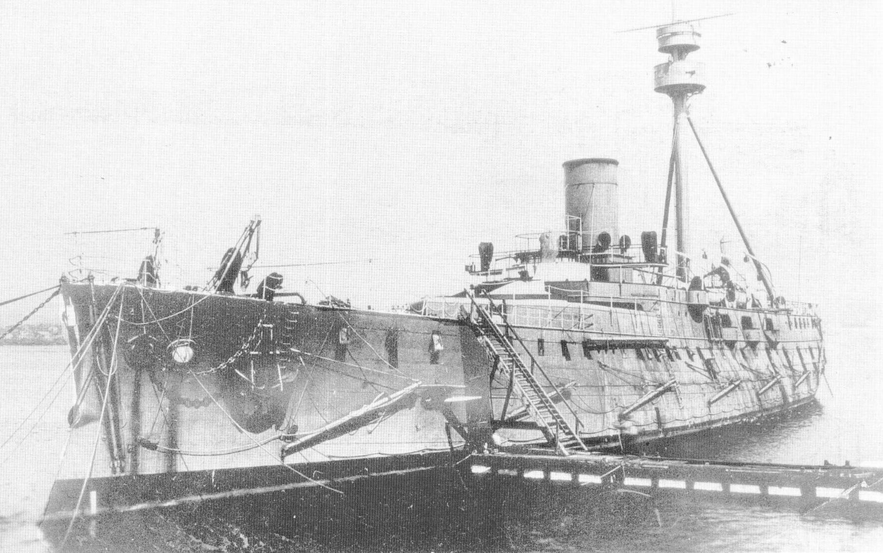 Picture of Japanese cruiser Itsukushima in France